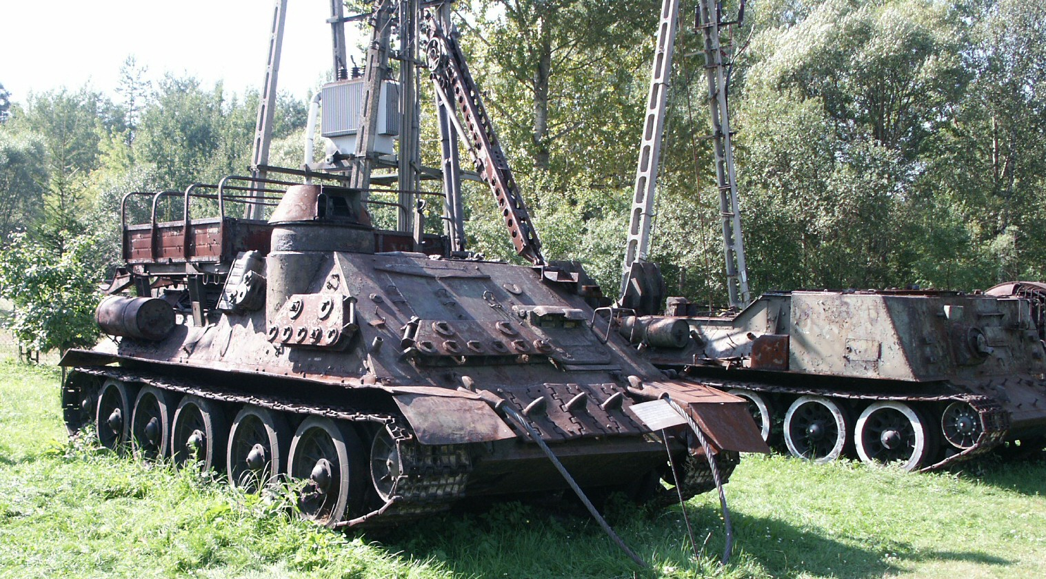 Polish SU-85 WPT armoured recovery vehicle (post-war SU-85 SP-gun conversion). On the right: CW-34 ARV